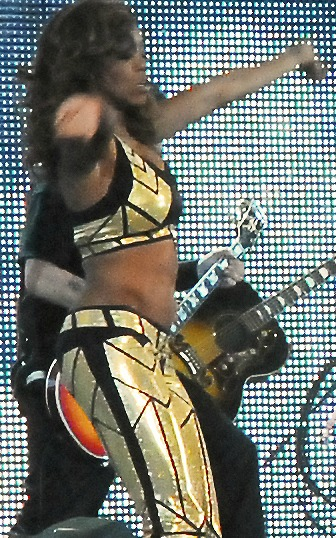 Alicia Fox performing her entrance at the 2011 edition of WrestleMania "25" to the "25 Divas-Battle Royal".